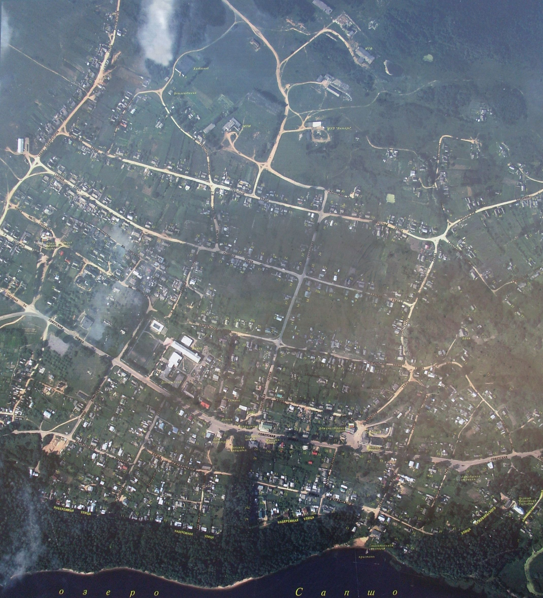 Przhevalskoe from high above